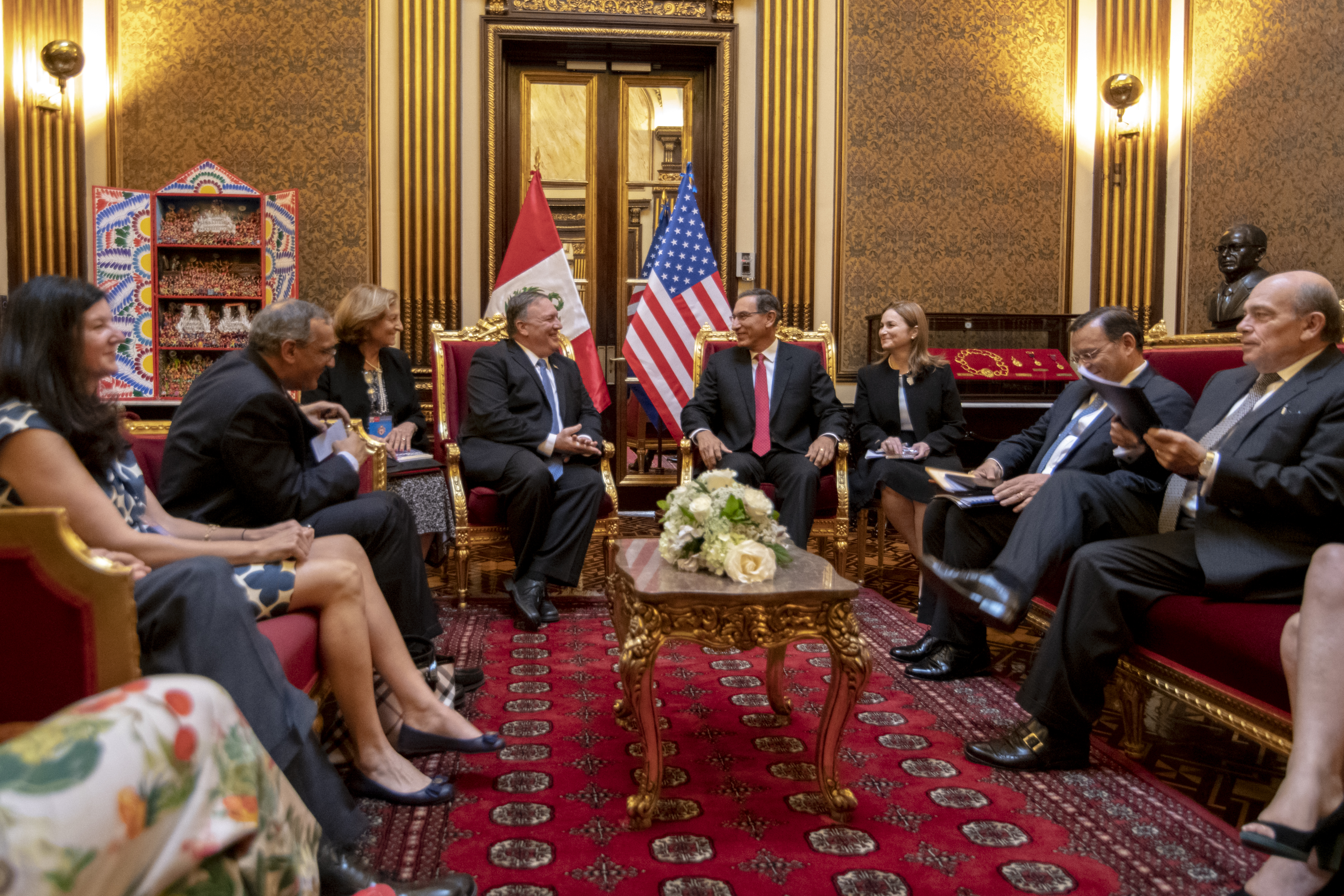 U.S. Secretary of State Michael R. Pompeo meets with Peruvian President Martin Vizcarra, in Lima, Peru, April 13, 2019. [State Department photo by Ron Przysucha/ Public Domain]